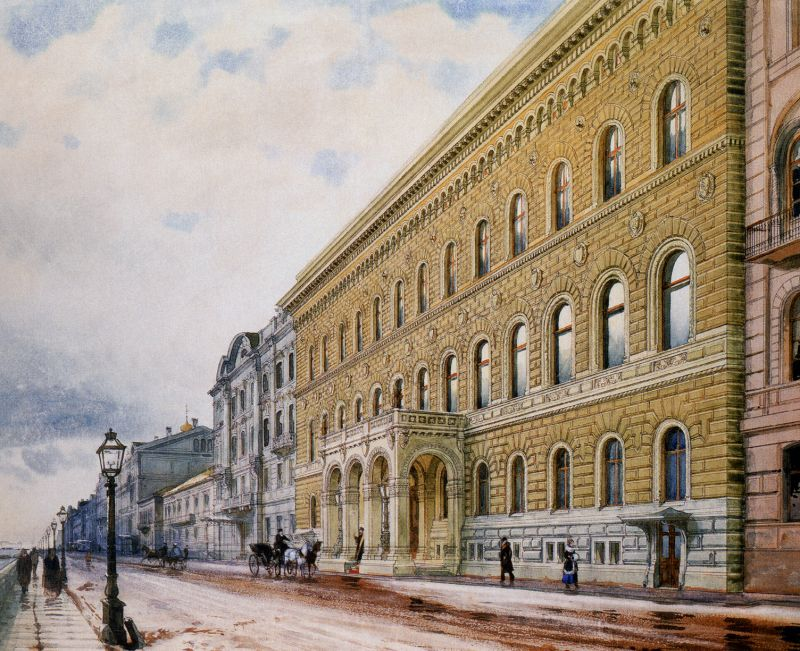 Albert Benois. Vladimir Palace in Saint Petersburg, 1870s.